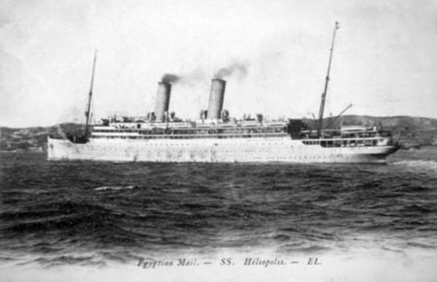 Photo of the SS Heliopolis from an old postcard issued by the Egyptian Mail Company between 1907 and 1910 to passengers on the ship.